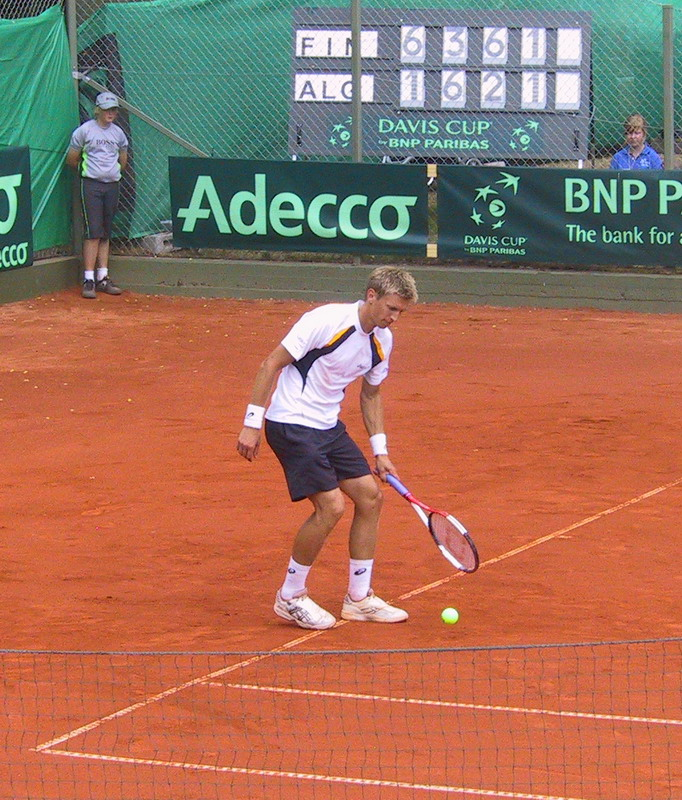 Tennis player Jarkko Nieminen in 2006, Hanko, Finland. The event was Davis Cup Finland-Algeria